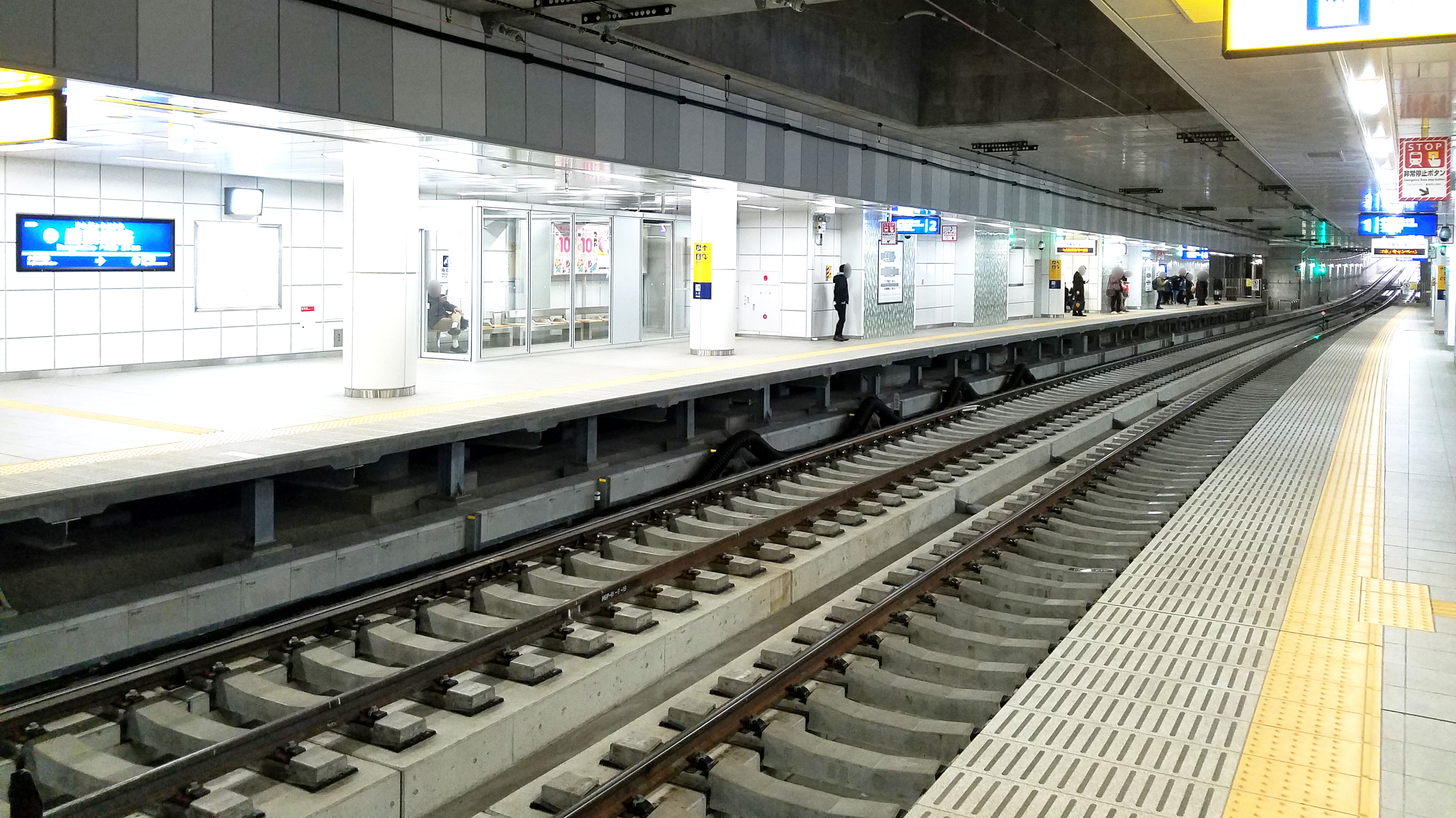 The platforms at Sangyōdōro Station on the Keikyū Daishi Line in Kawasaki ward, Kawasaki city, Japan